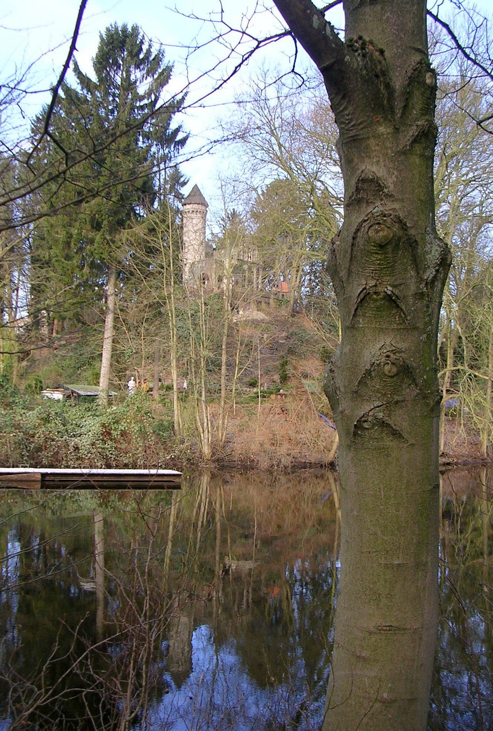 Miniature (scale 1:4) of Castle Ruin „Henneberg“ (aristocratic family seat originally situated near Meiningen/Thuringia) built as a kind of summer house in 1887 for landowner Albert Henneberg on his property above Alster lake near Poppenbüttel locks. View from Alster path.